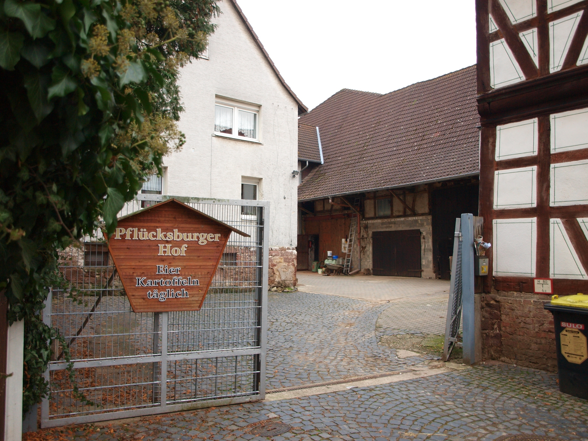 The Pflücksburg Farm in Nidderau-Windecken, 1748-1891 casting place of the Bach bell foundry